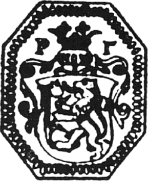 Heraldic seal used by the Wallachian Logothete Hrizea of Bălteni, on a letter from November 1640 (original now kept at the Romanian Academy Library).